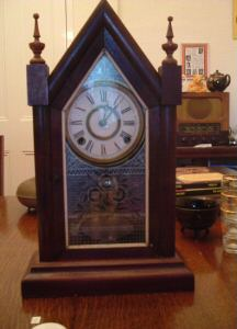 Ansonia Gothic Clock